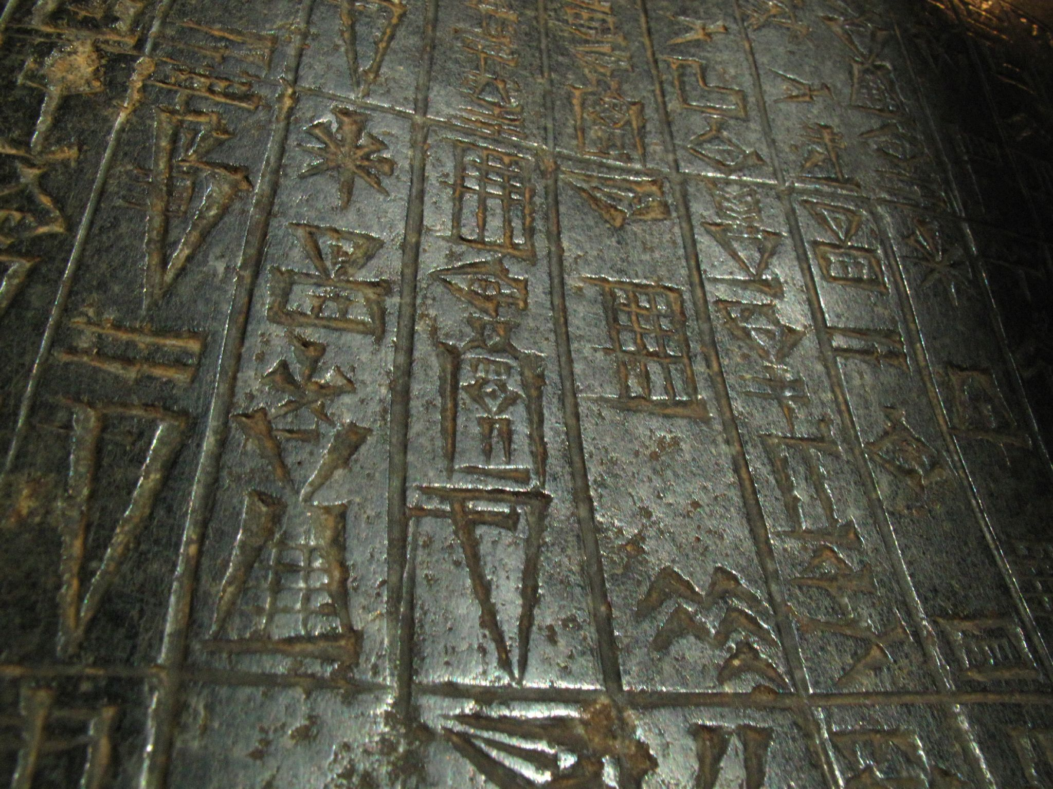 Code of Hammurabi